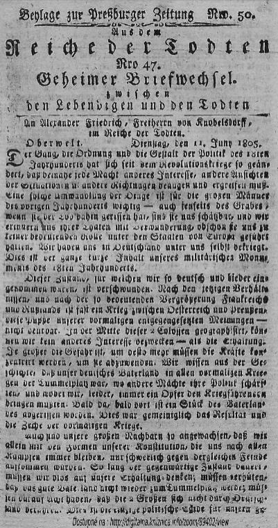 Title page of Aus dem Reiche der Todten serial issued in Bratislava end 18-th century as the Pressburger Zeitung´s supplement